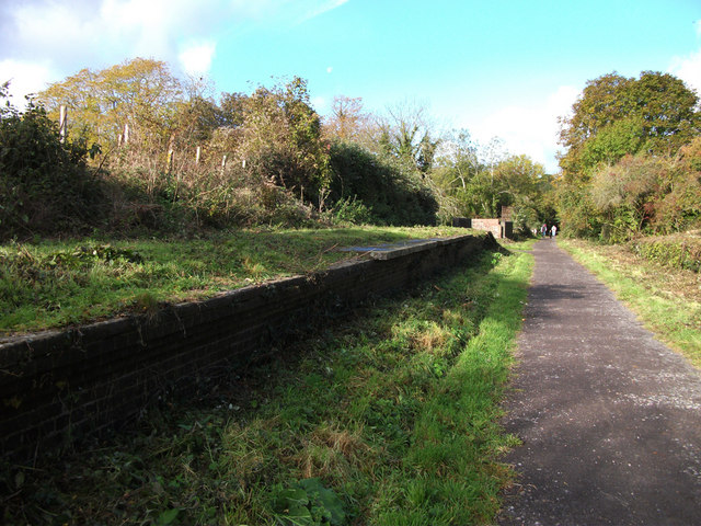 Spetisbury Halt, abandoned platform